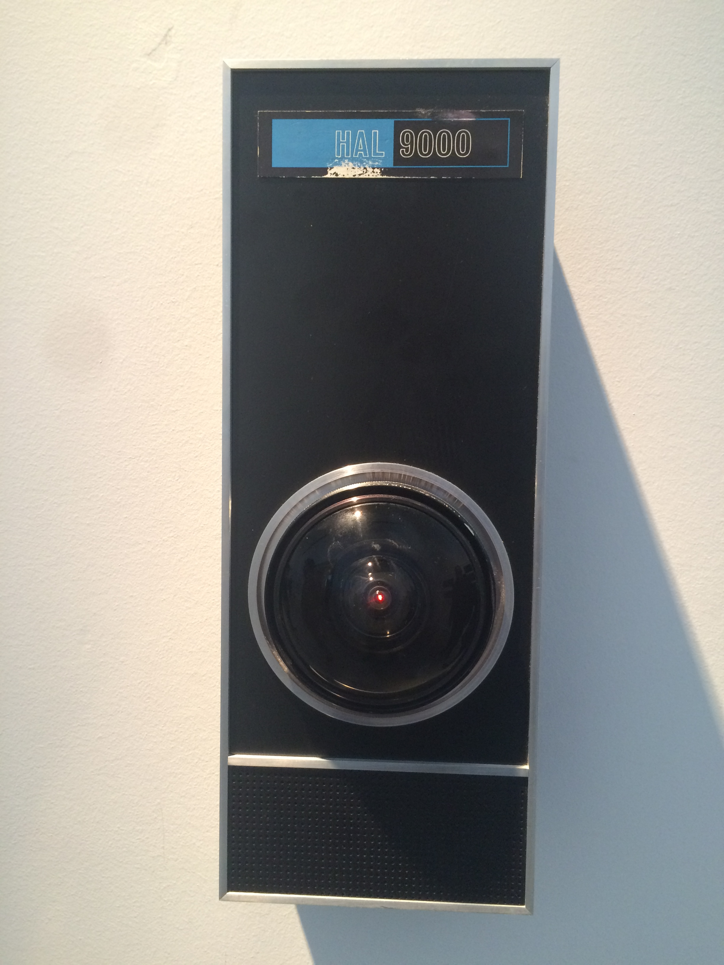 displayed at Stanley Kubrick: The Exhibit, TIFF, Canada.